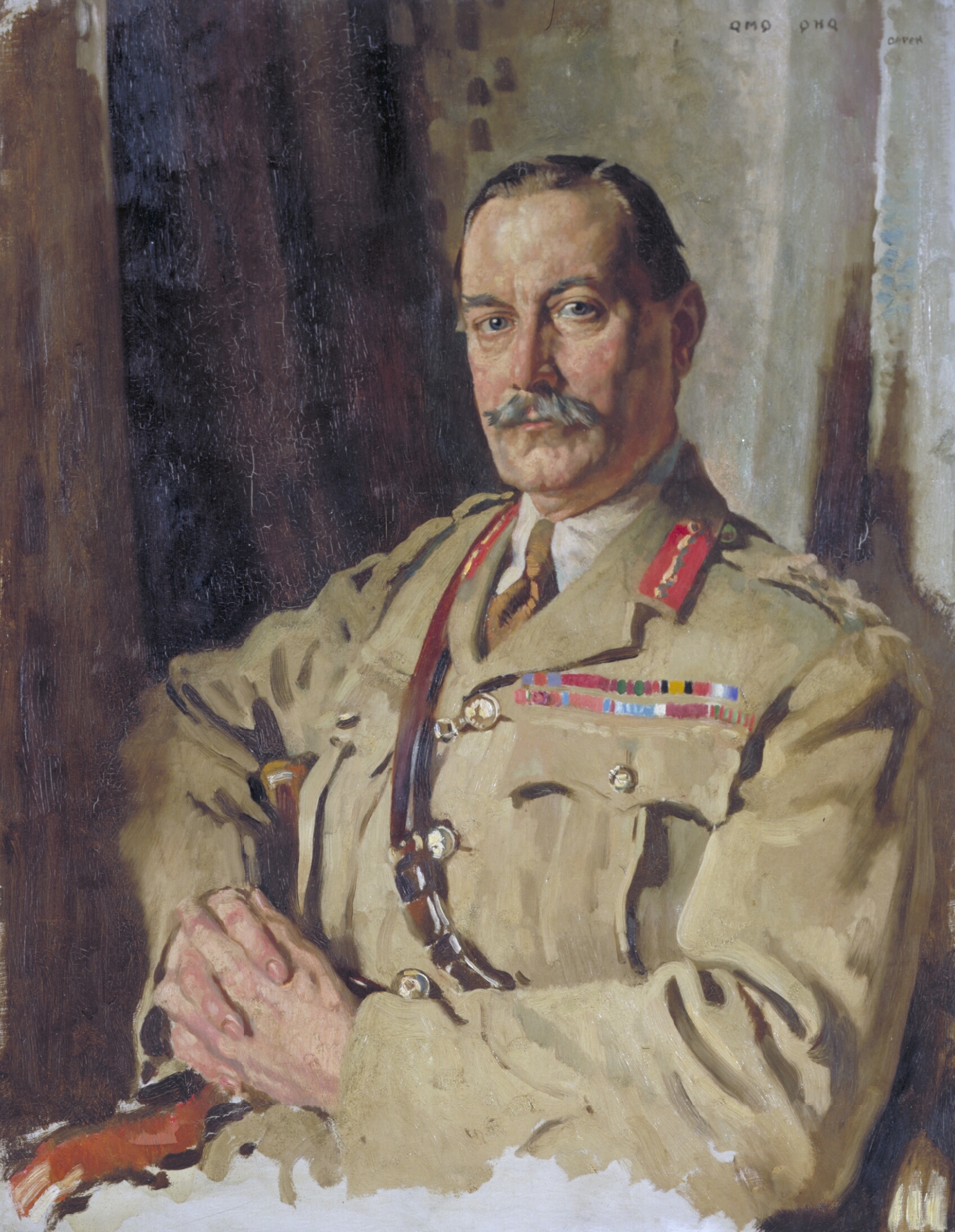 Portrait of Lieut-Gen Sir Travers Clarke, KCMG, CB : Quarter-Master General, France.